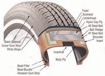 Radial tires have body ply cords that are laid radially from bead to bead, nominally at 90º to the centerline of the tread. Two or more belts are laid diagonally in the tread region to add strength and stability. Variations of this tire construction are used in modern passenger vehicle tire.